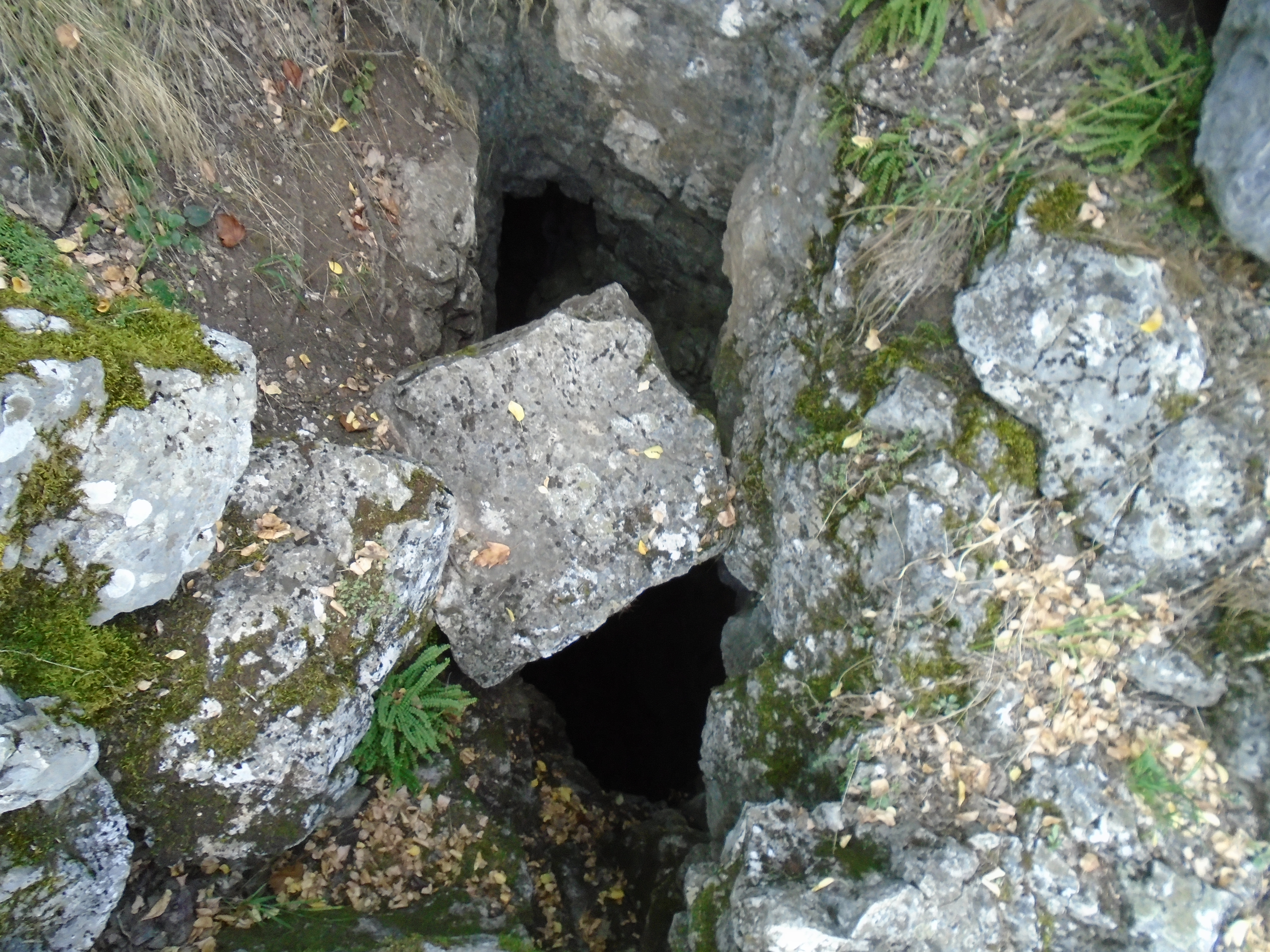 Entrance of Hét Hole.